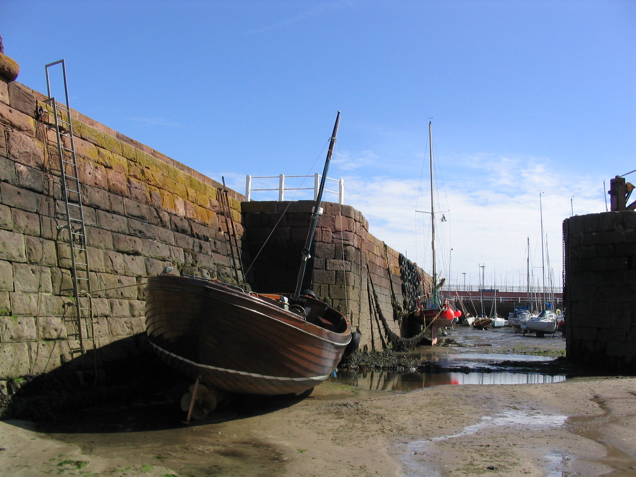 North Berwick harbour at low tide. Photograph taken by me, Martin Taylor, July 2004.